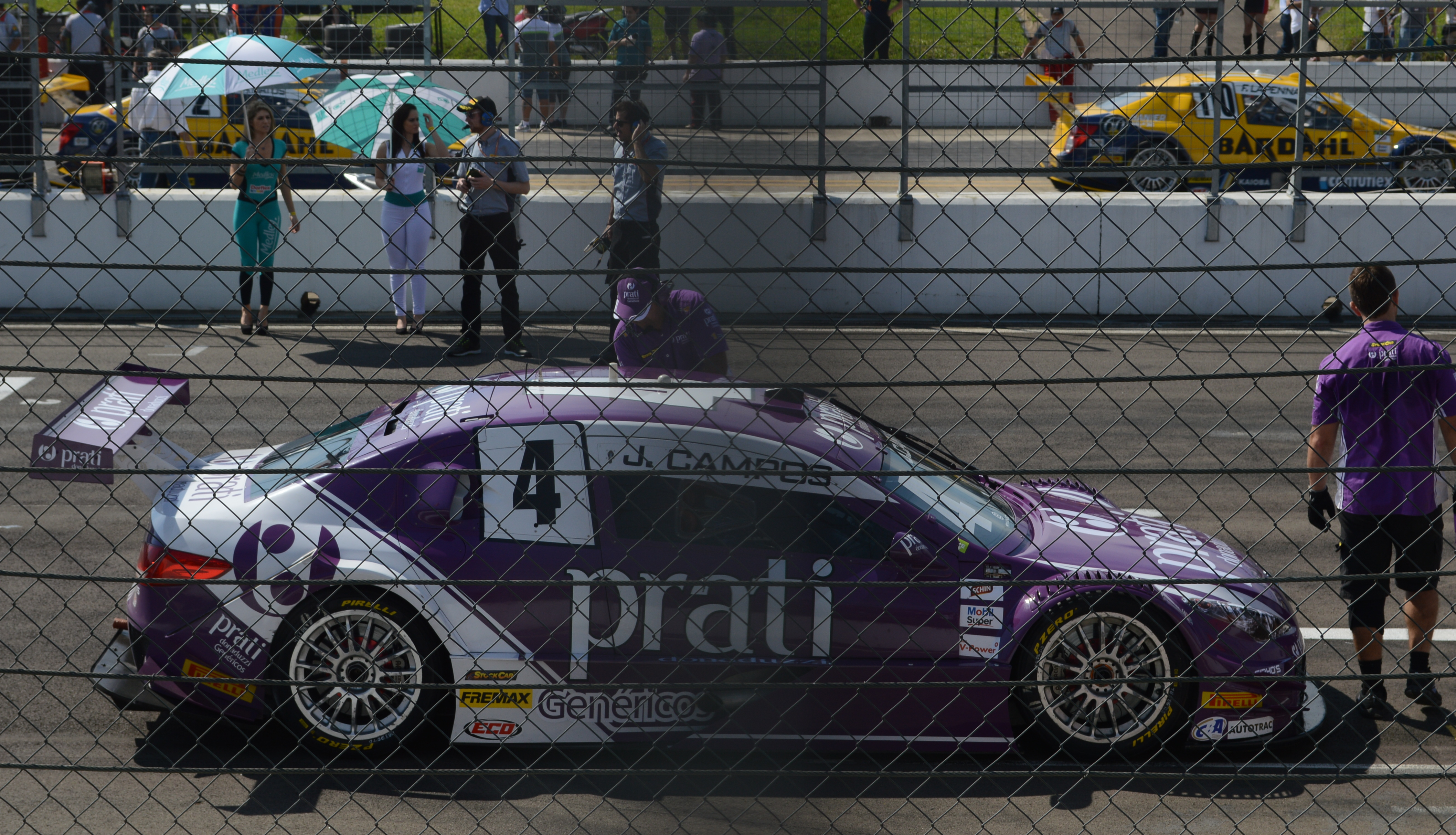 Júlio Campos at the grid, waiting for the start of the race at Velopark, Brazil, in 2014.